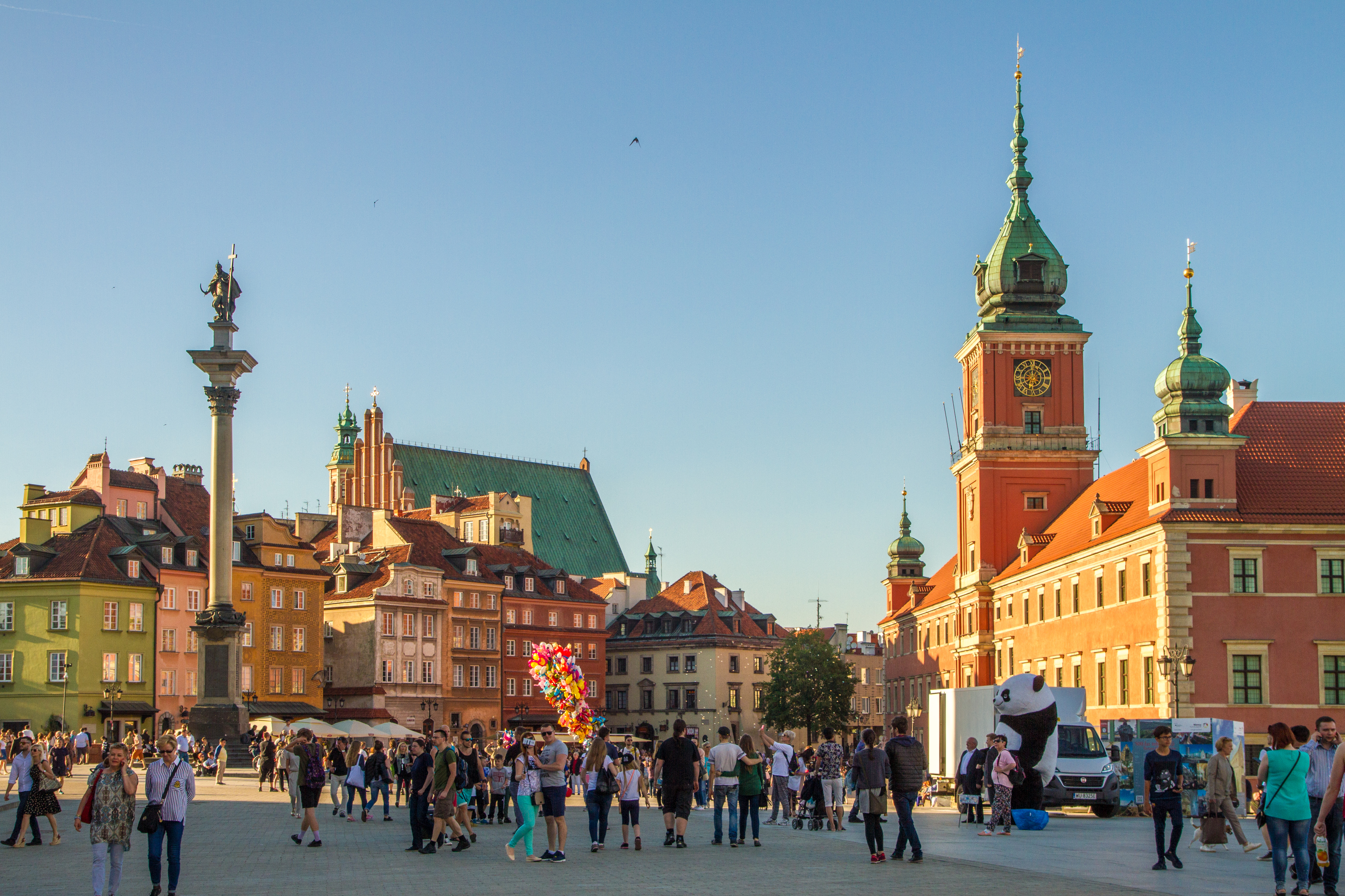 Castle Square in Warsaw